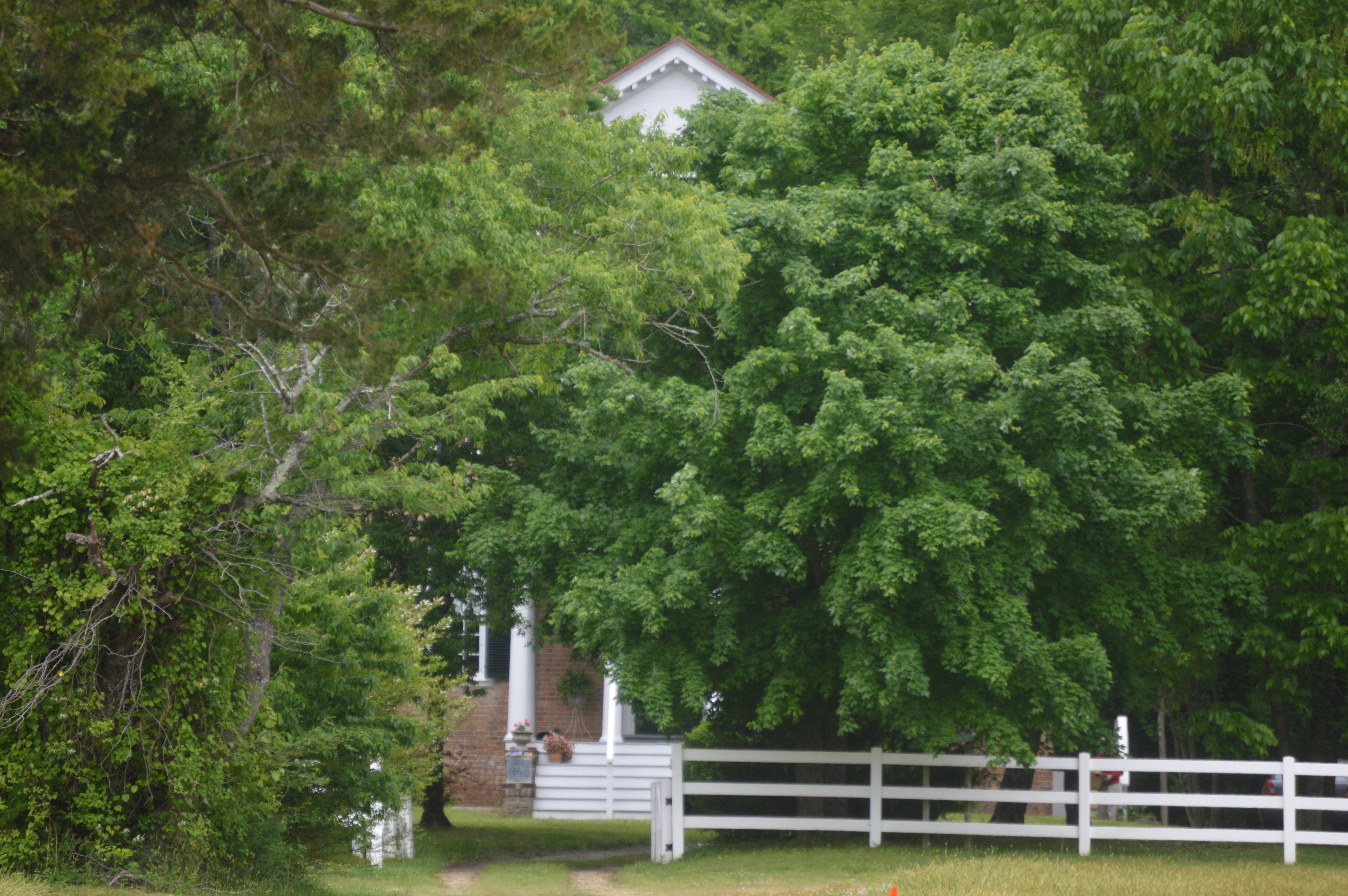 Front of Aberdeen, located on State Route 10 southeast of Hopewell in Prince George County, Virginia, United States. Built in 1810, it is listed on the National Register of Historic Places.